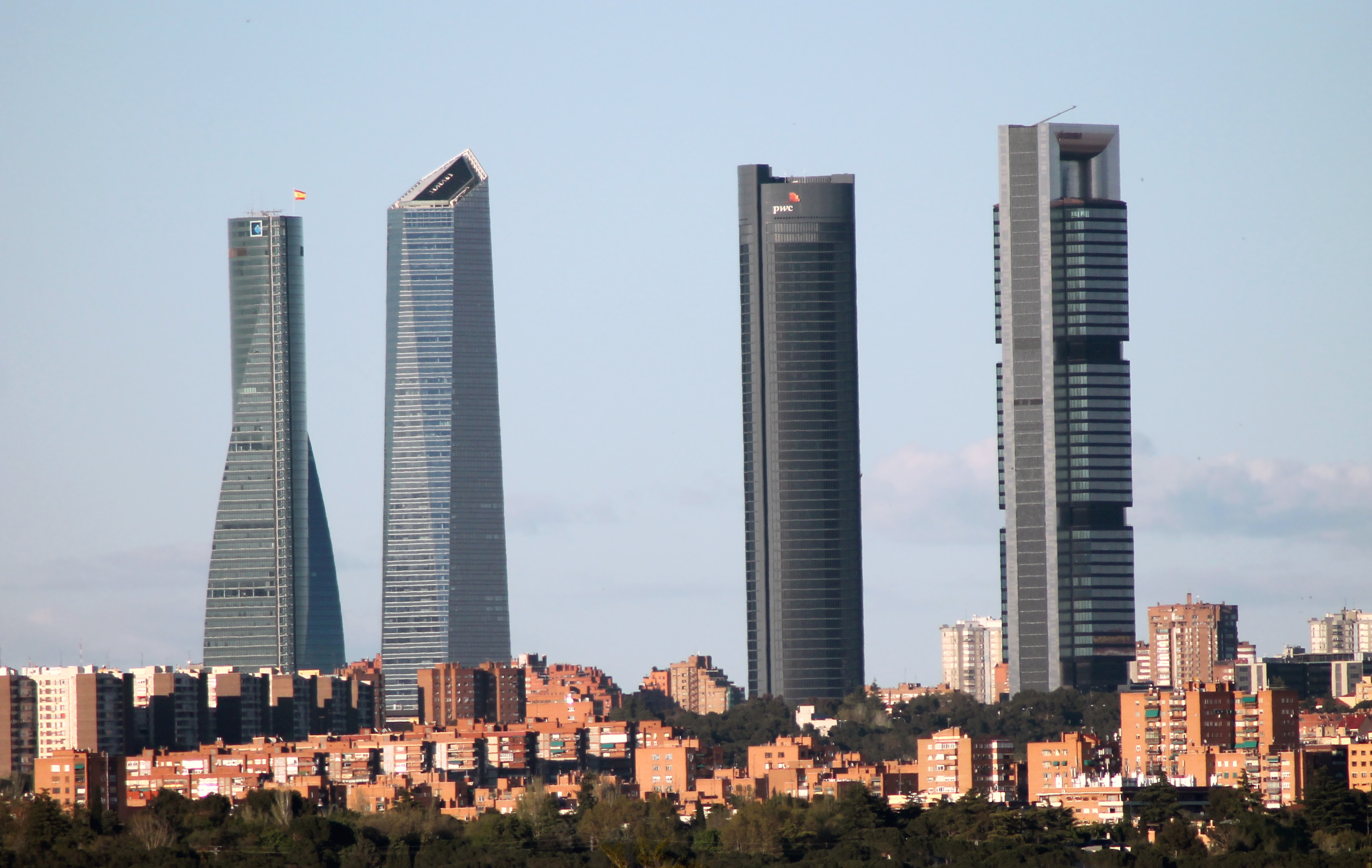 View of Cuatro Torres Business Area in Madrid (Spain). From left to right: Torre Espacio, Torre de Cristal, Torre PwC and Torre Cepsa.